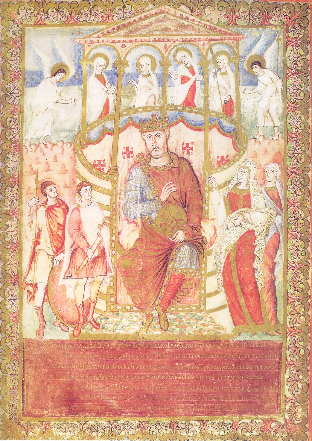 Photo of the dedication page of the Carolingian Bible (IXth century): to 'Rex Carolus' (Charles le Chauve). The Bible is kept in the Abbey of Saint-Paul-outside-the-walls (Rome).